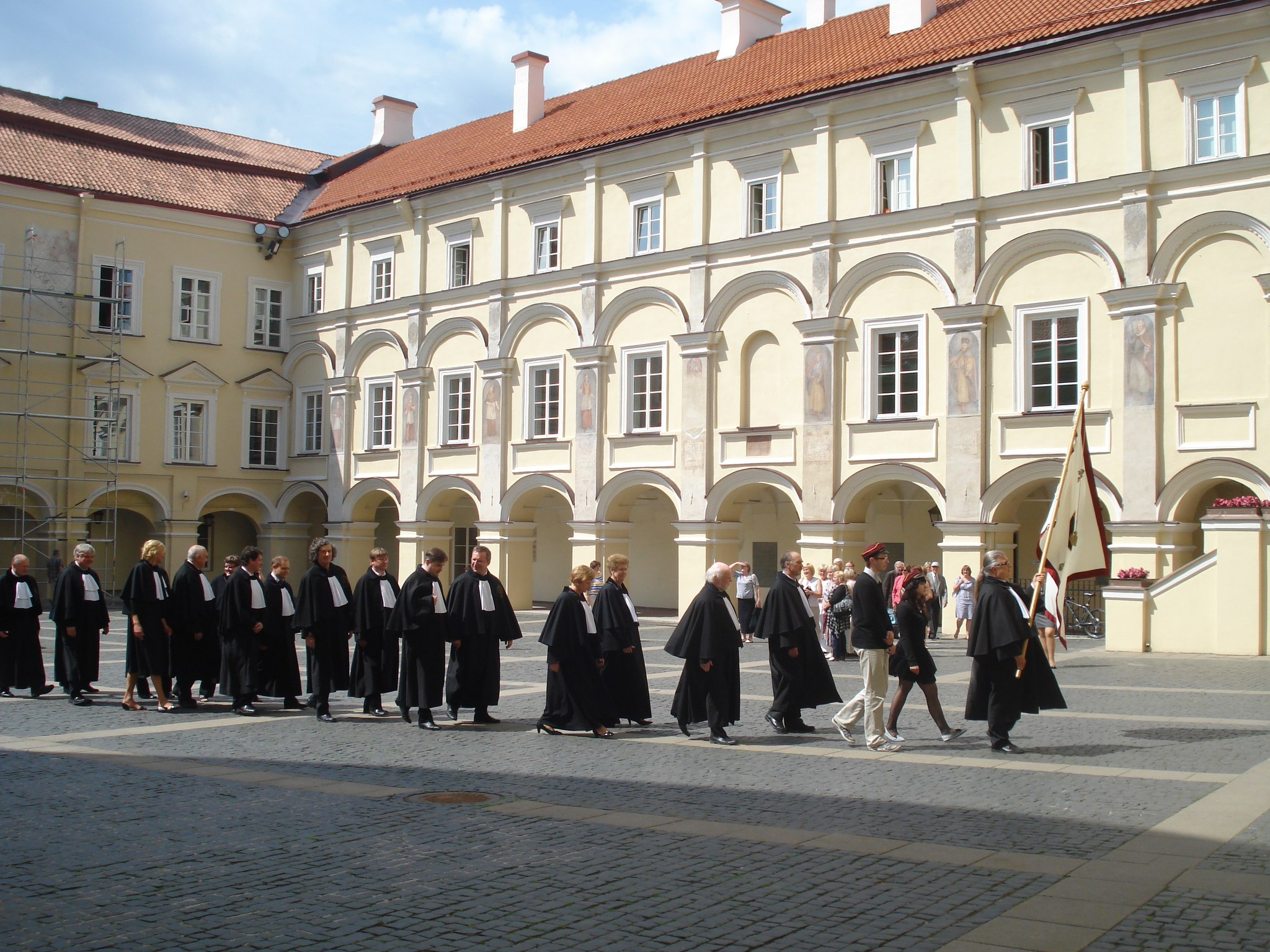 Finis semestri in the Great Courtyard of the Vilnius University. 2012.07.03